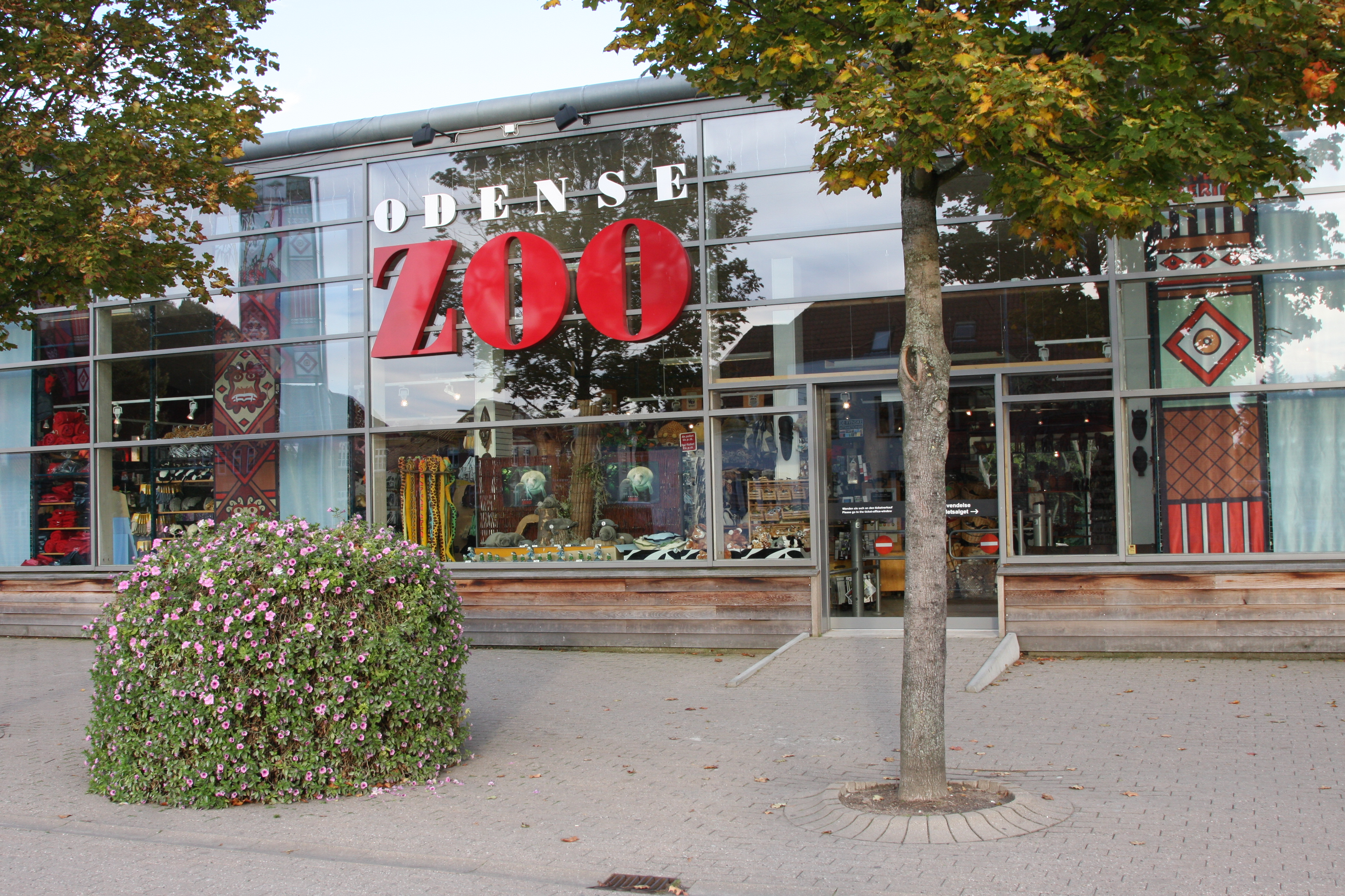 Part of the main entrace to Odense Zoo.